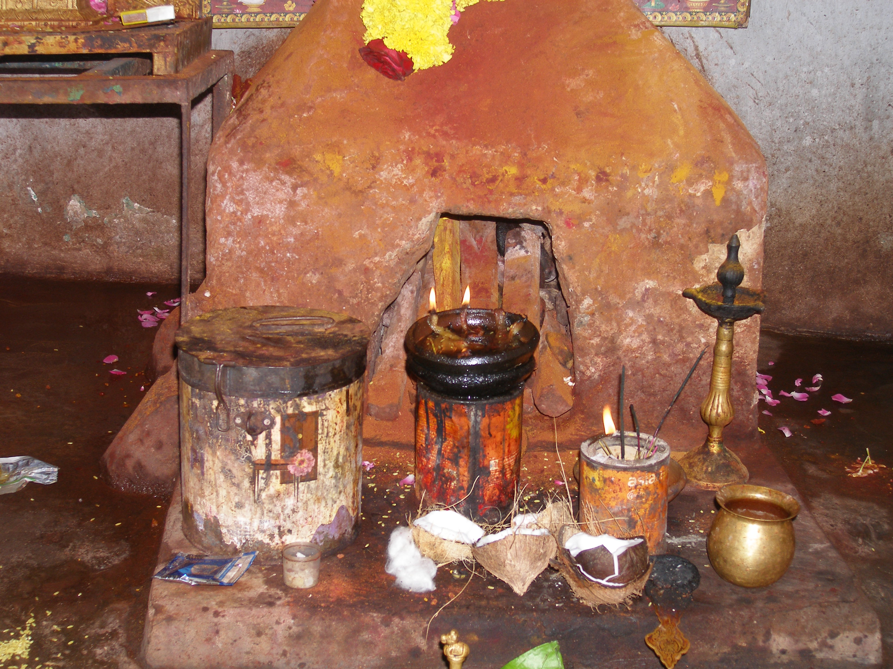 This is photograph of Gramadevata temple at Vakadavalasa village in Vizianagaram district taken by me.Rajasekhar1961 (talk) 06:53, 21 October 2013 (UTC)